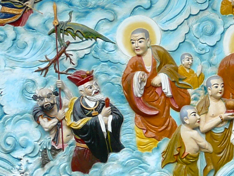 This relief panel is in the small courtyard in front of Quan Am Pagoda, Cho Lon, Ho Chi Minh City. The panel depicts a bodhisattva from the Pure Land conversing with the spirit of the land on which the pagoda was built.